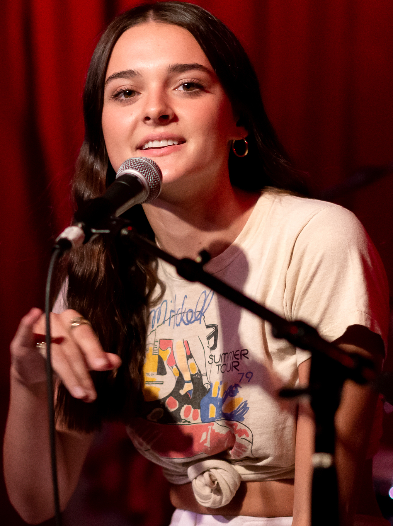 Jesse & Friends live at the Hotel Cafe in Hollywood, Los Angeles, California, on Tuesday, August 28, 2018. Featuring performances by Jesse Thomas, Cara Salimando, Cyn, Wrabel, Amy Allen, Charlotte Lawrence, and Bobi Andonov.